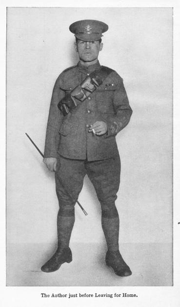 Frontpiece of Over the Top, by Arthur Guy, Empry, Published in the United States in 1917. Arthur Guy Empey born 11 December 1883 Ogden, Utah died 22 February 1963 in Wadsworth, Kansas was in both the Britsh and American armies of World War I, an author, screenwriter, actor and prolific author of pulp fiction.